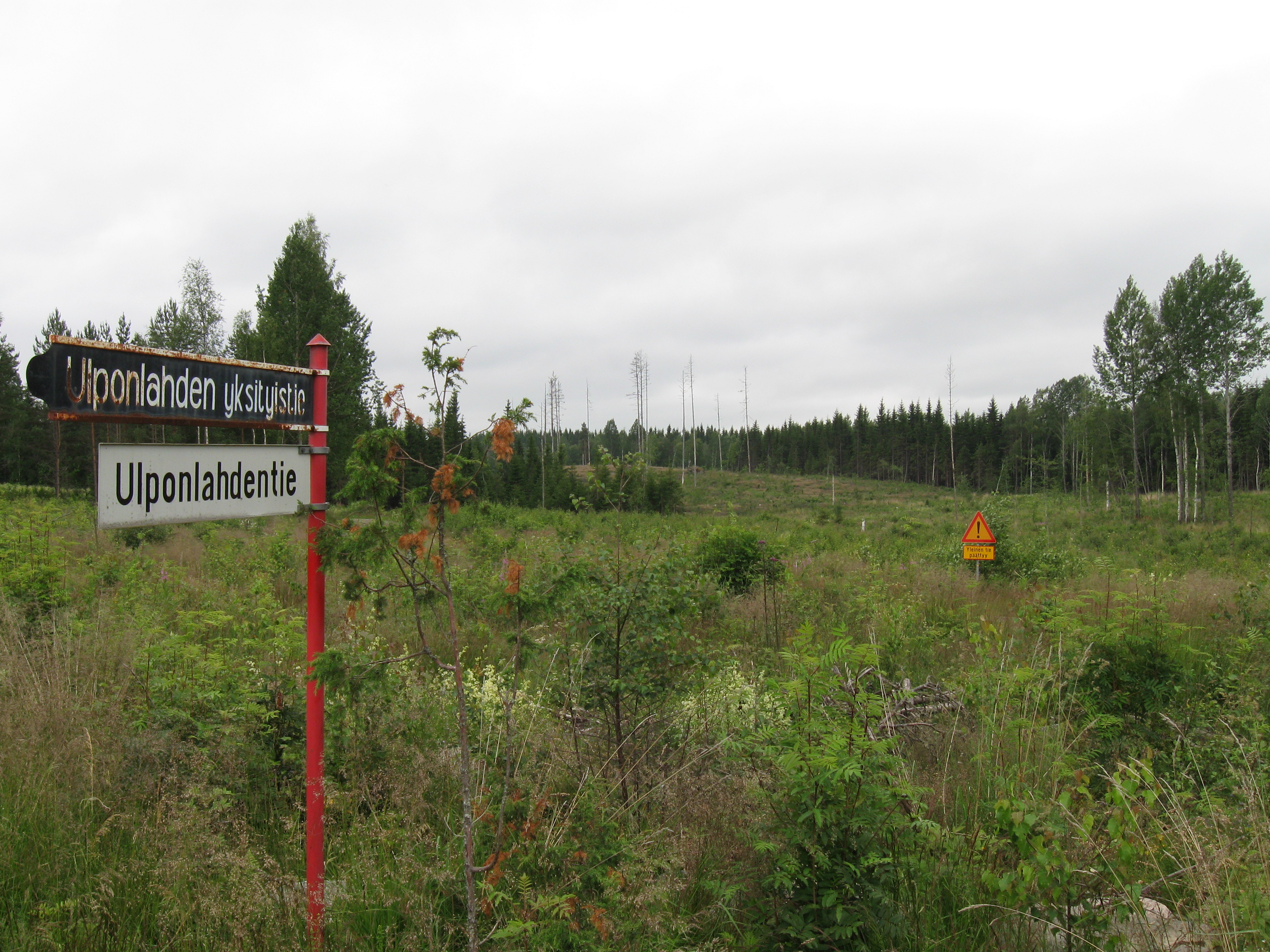 Signs for the Ulponlahti private road in Rautalahti, Parikkala, Finland.